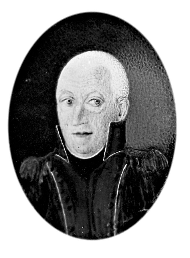 Matthias Conrad Peterson (1761-1833)